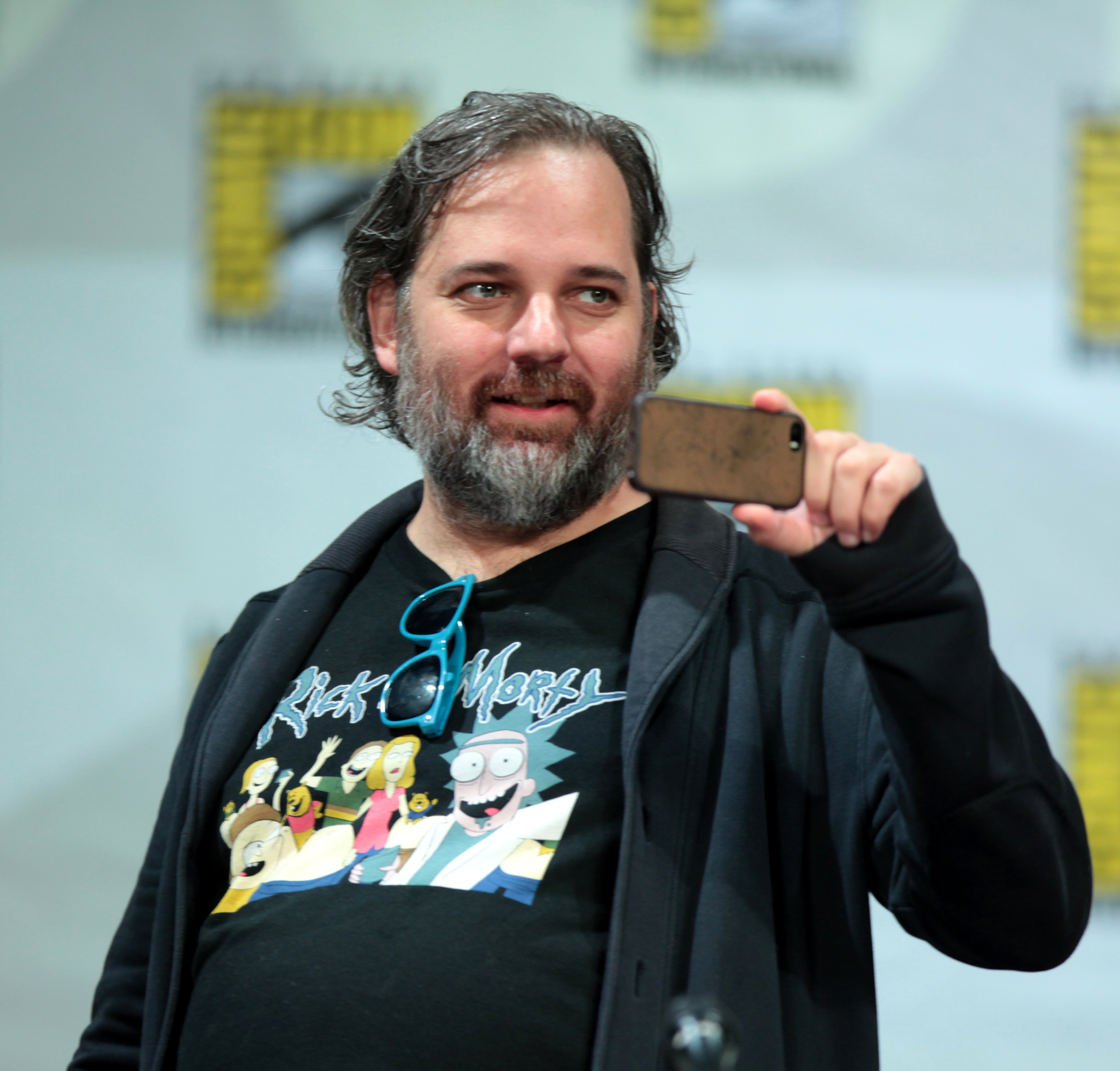 Dan Harmon speaking at the 2014 San Diego Comic Con International, for "Community", at the San Diego Convention Center in San Diego, California.